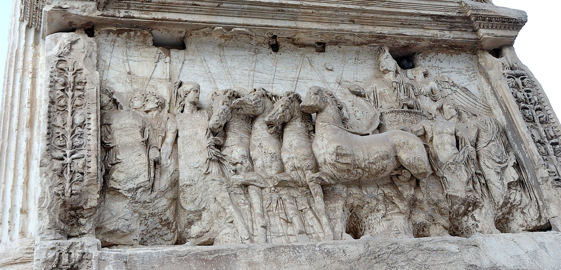 Image from flickr of a frieze from the Arch of Titus in Rome